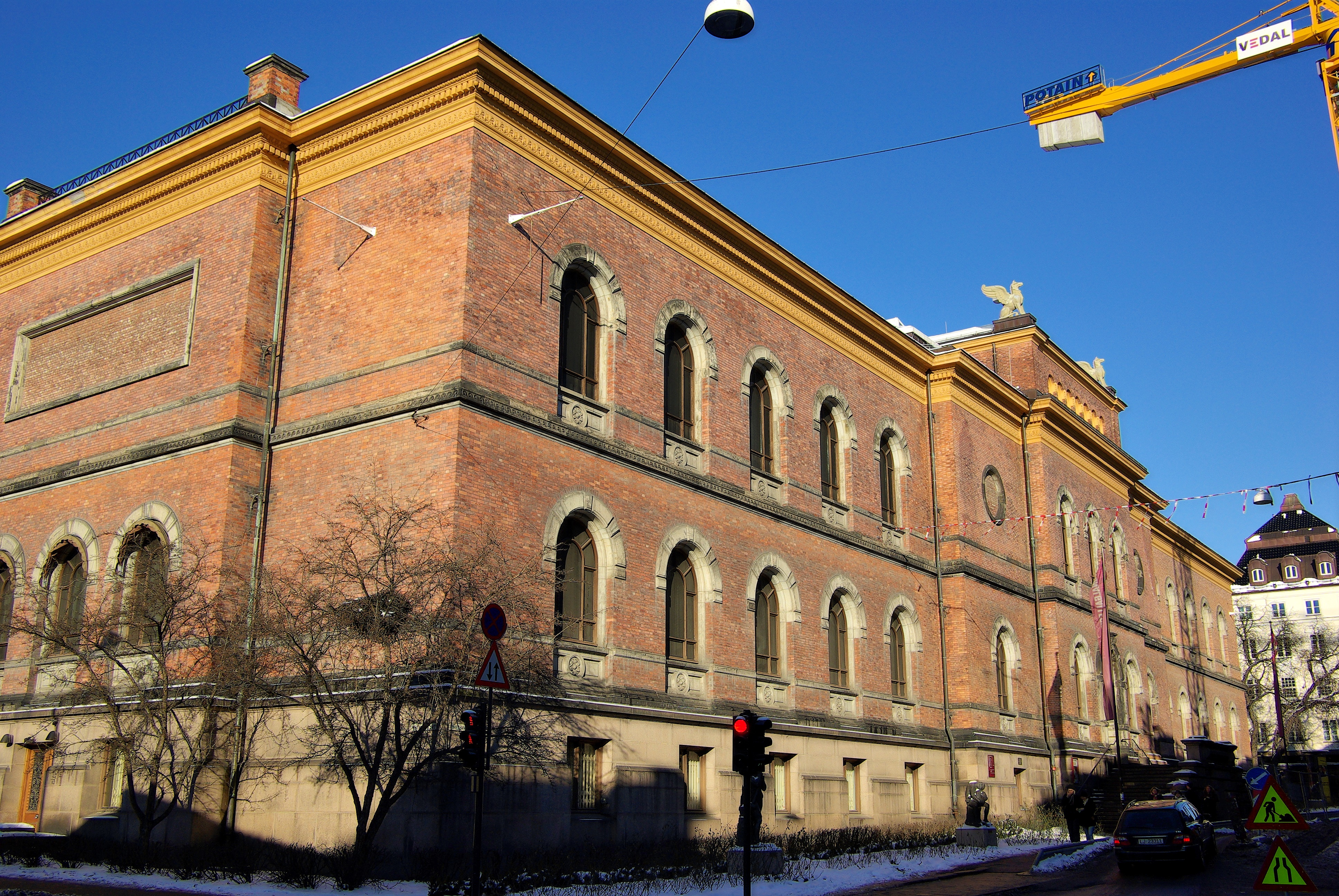 The national gallery in Oslo, Norway. Architects: Heinrich Ernst Schirmer and Adolf Schirmer. The building was finished in 1882. This is a protected building as of January 2012